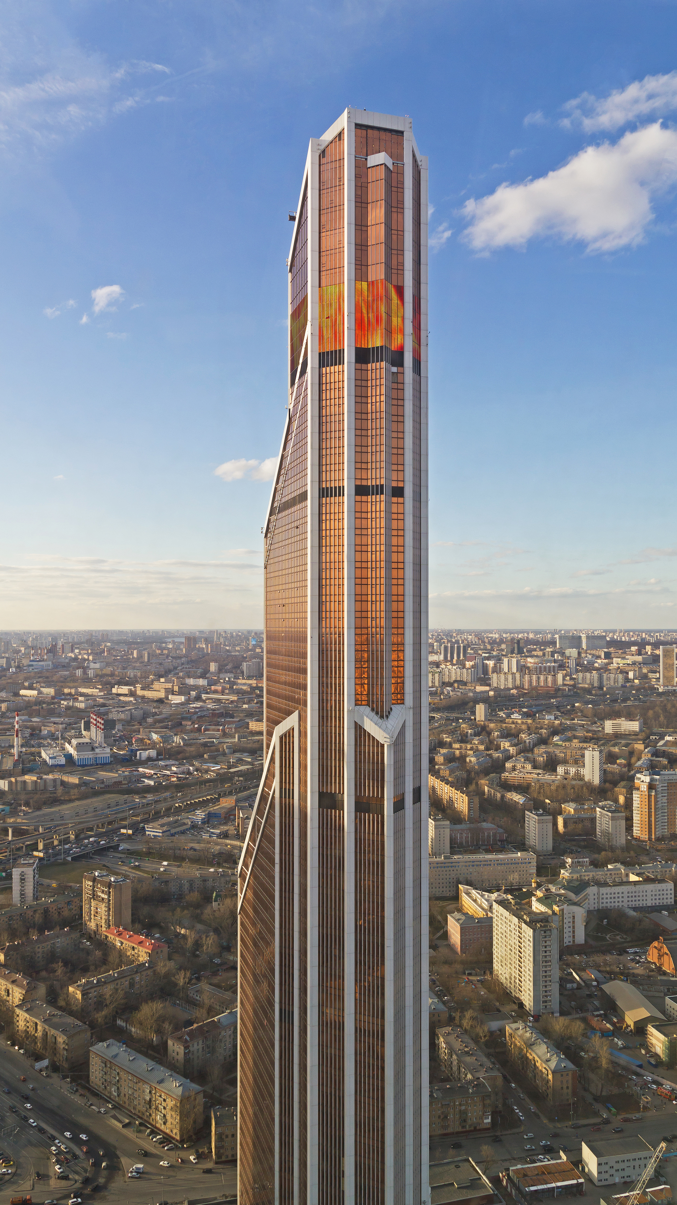 Moscow: view of Mercury City Tower from the observation point of Imperia Tower (Moscow-City)